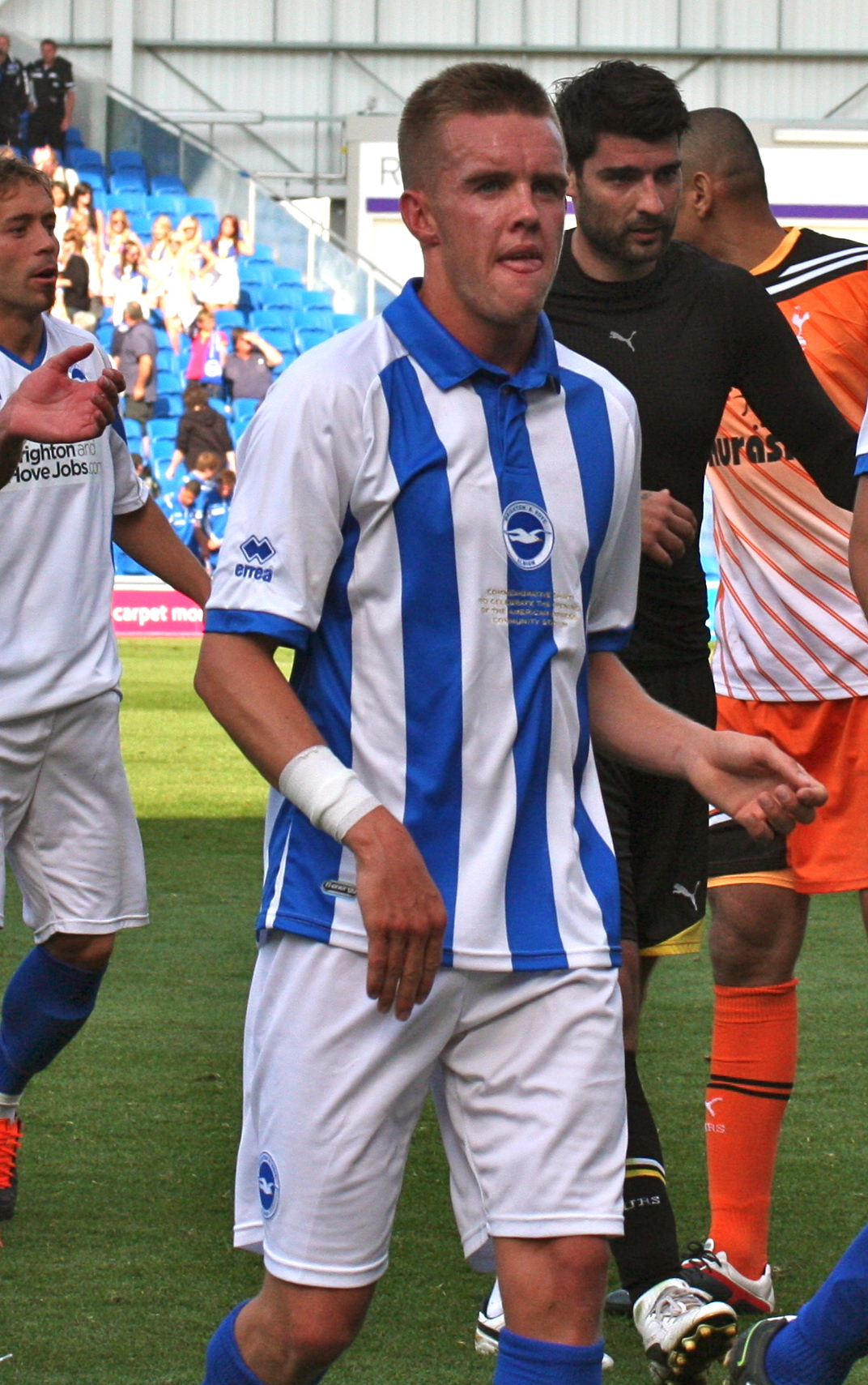 Brighton v Spurs Amex Opening 30/7/11